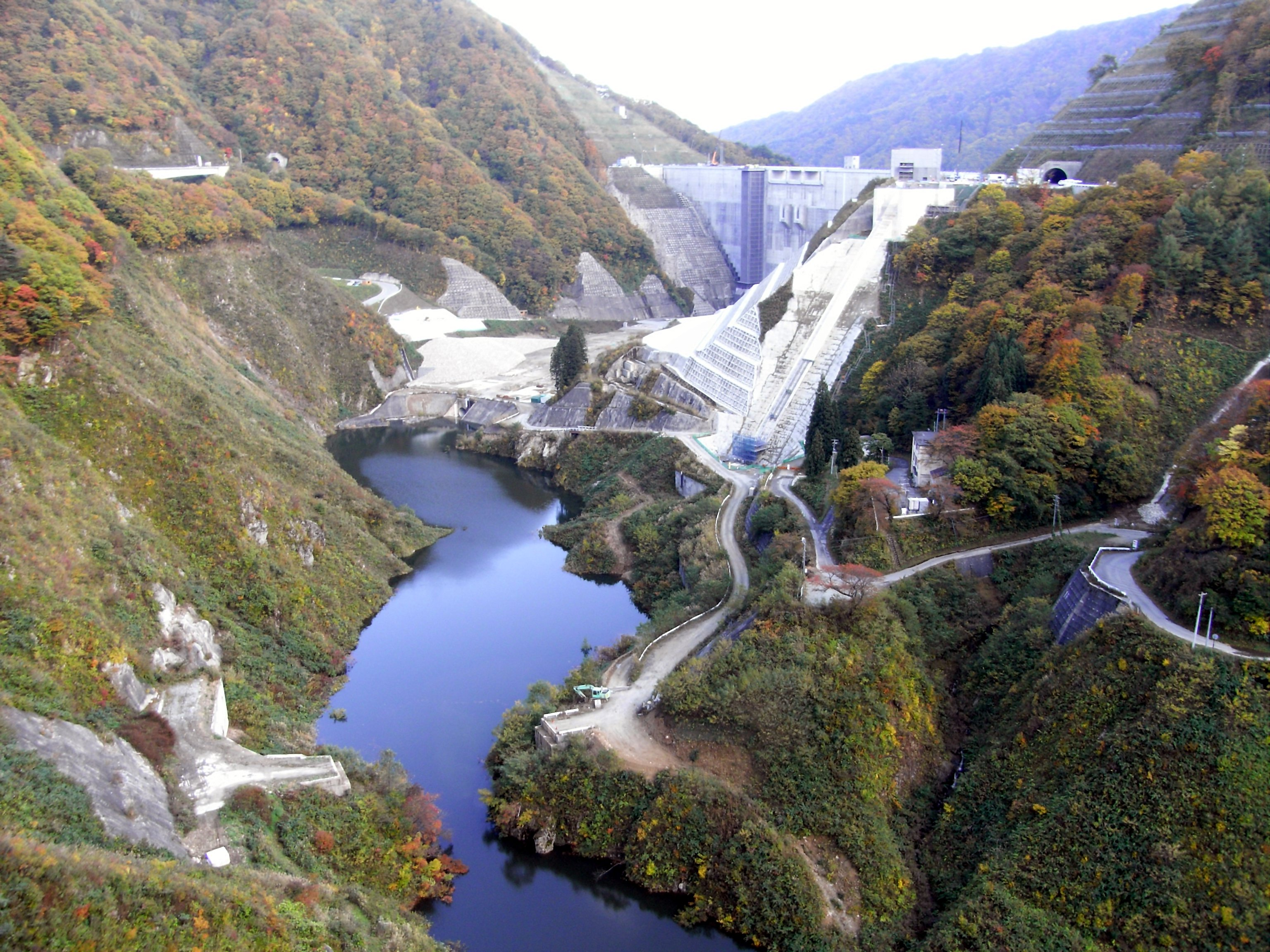 Lake Nagaihyakushuko(Okitamanogawa river/Yamagata Pref./Japan)